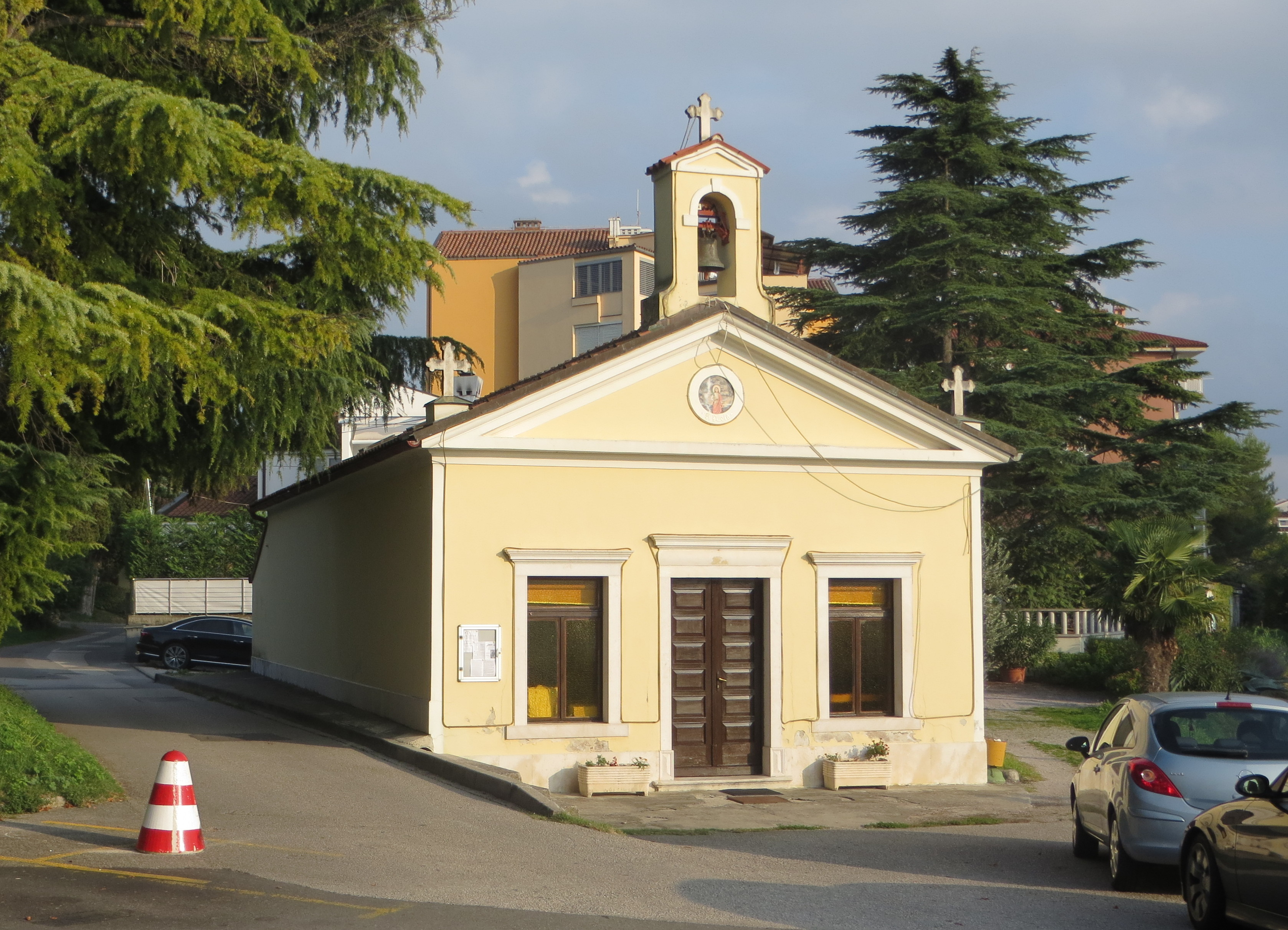 Saint Lucy's Church in Lucija, Municipality of Piran, Slovenia